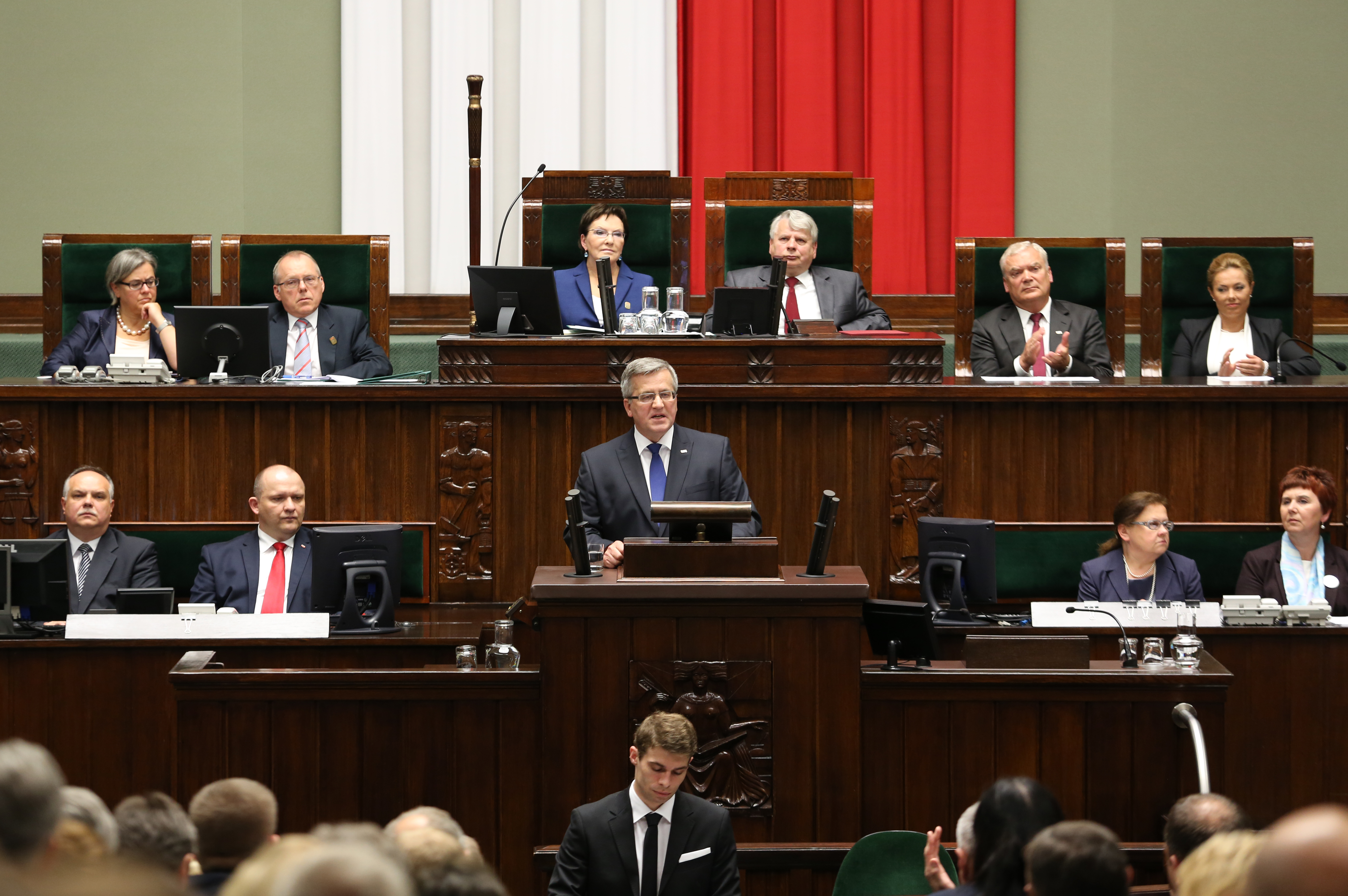 President Bronisław Komorowski addressing National Assembly on June 4th 2014